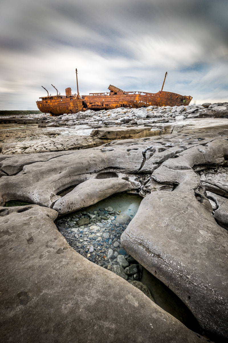 500px provided description: If you like my pictures please support me buying a print from my shop thanks! You can follow me on [#line ,#sky ,#landscape ,#sea ,#boat ,#travel ,#clouds ,#europe ,#old ,#urban ,#motion ,#rocks ,#orange ,#photo ,#green ,#sony ,#black ,#seascape ,#lines ,#long exposure ,#photography ,#dramatic ,#ireland ,#shipwreck ,#leading ,#full frame ,#fullframe ,#geotagged ,#a7 ,#ultra wide ,#plassey ,#sony a7 ,#sonya7 ,#sony fe 16 35 ,#sonyfe1635]